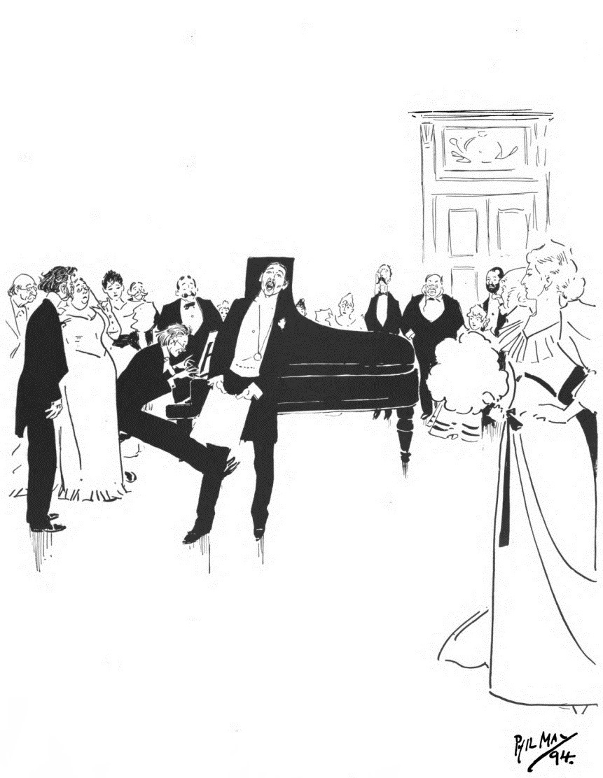 "At Homes" - Number 1: "I fear no foe." A soiree at which a man sings Ciro Pinsuti's 1857 song "I Fear No Foe".